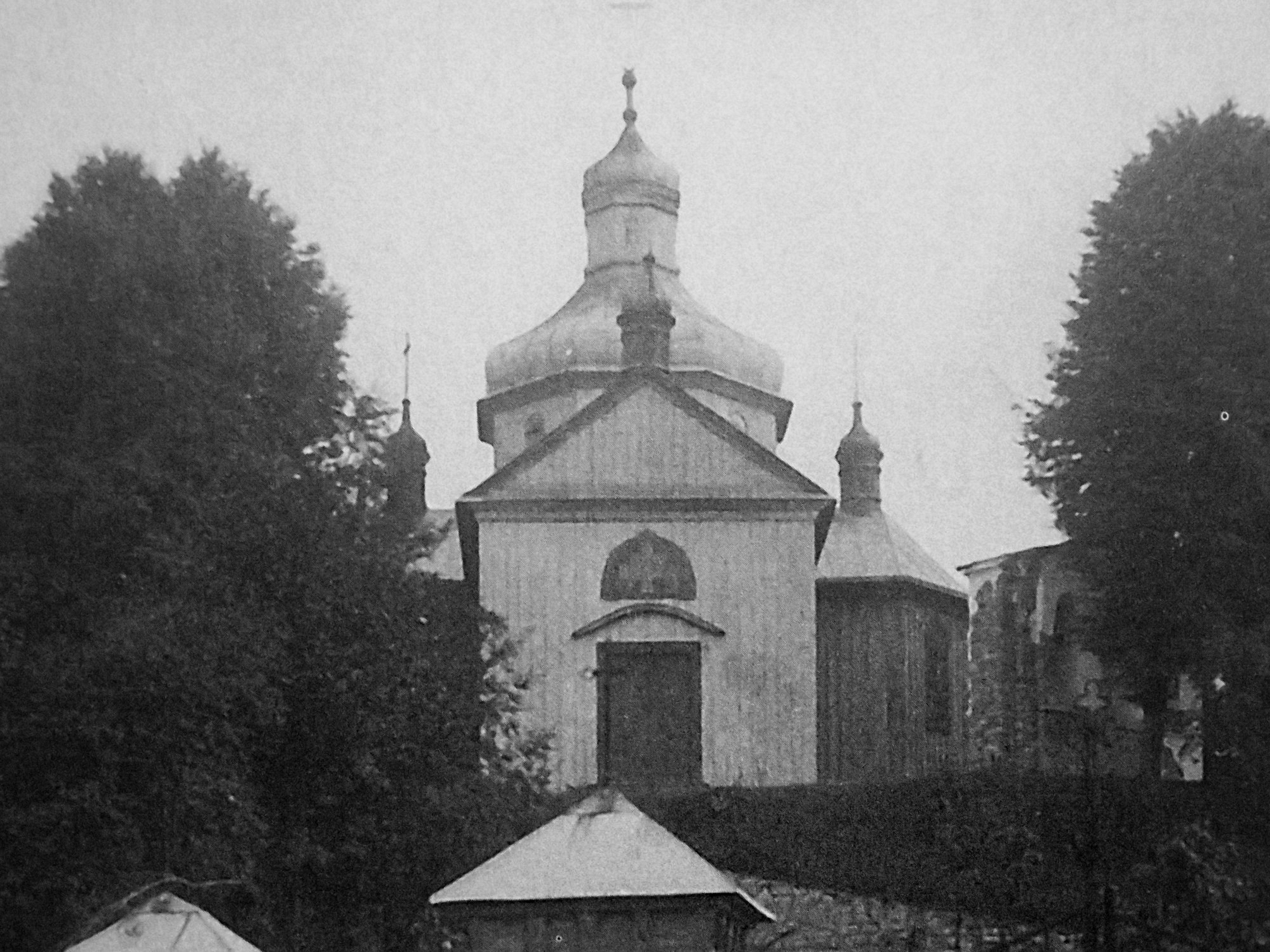 Greek Catholic Church of the Nativity of the Virgin in Besko (Bosko). Built in 1881, disassembled in 1953.